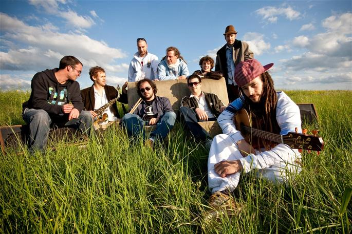 Danakil session photo Tournée Dialogue de sourd